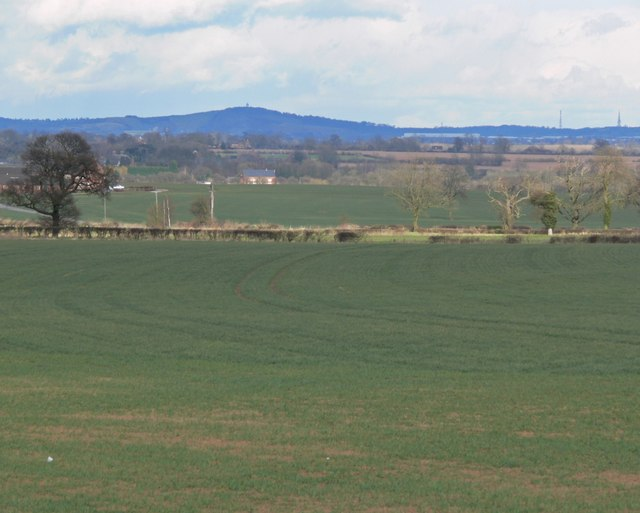 Farmland near Appleby Parva The high ground is Bardon Hill, the highest point in Leicestershire and about 10 miles away.